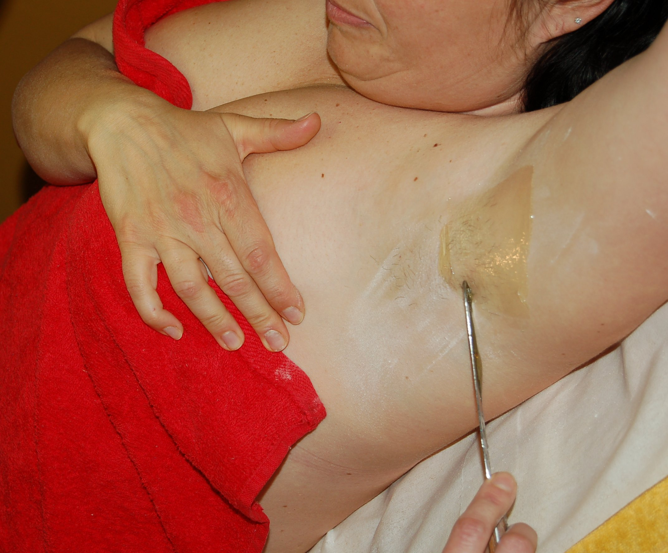 la ceretta a caldo viene distesa sull'ascella